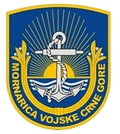 Montenegrin Navy coat of arms